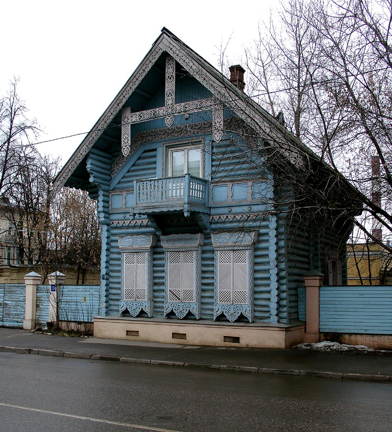 Devichye Pole, Moscow, Pogodinskaya Izba (cottage)